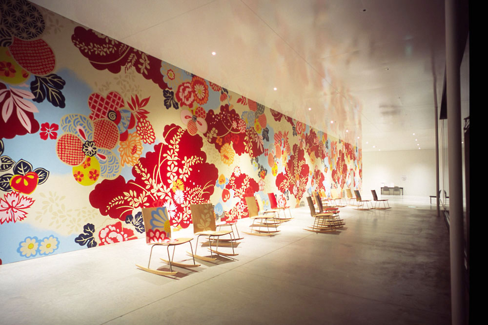 21st Century Museum of Contemporary Art, Kanazawa. Kanazawa,Ishikawa-pref.,Japan Designed by SANAA 2004 Structure design Mutsuro Sasaki CONTAX G2